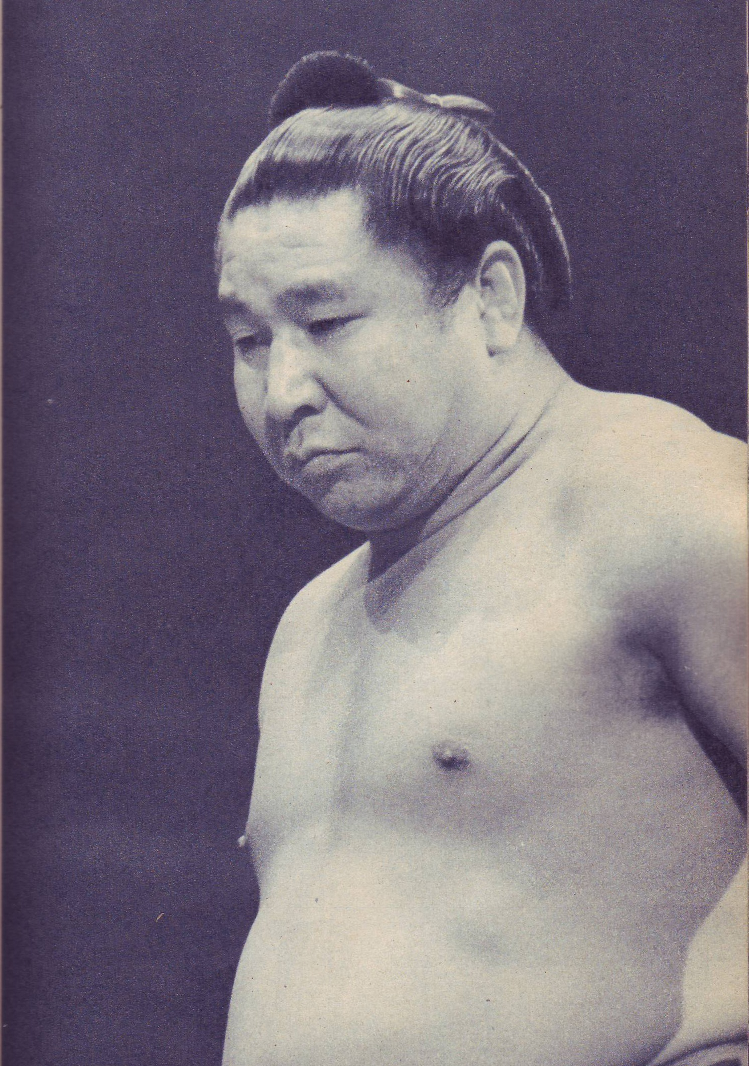 Wakanohana Kanji I (taken in 1961, or before that).